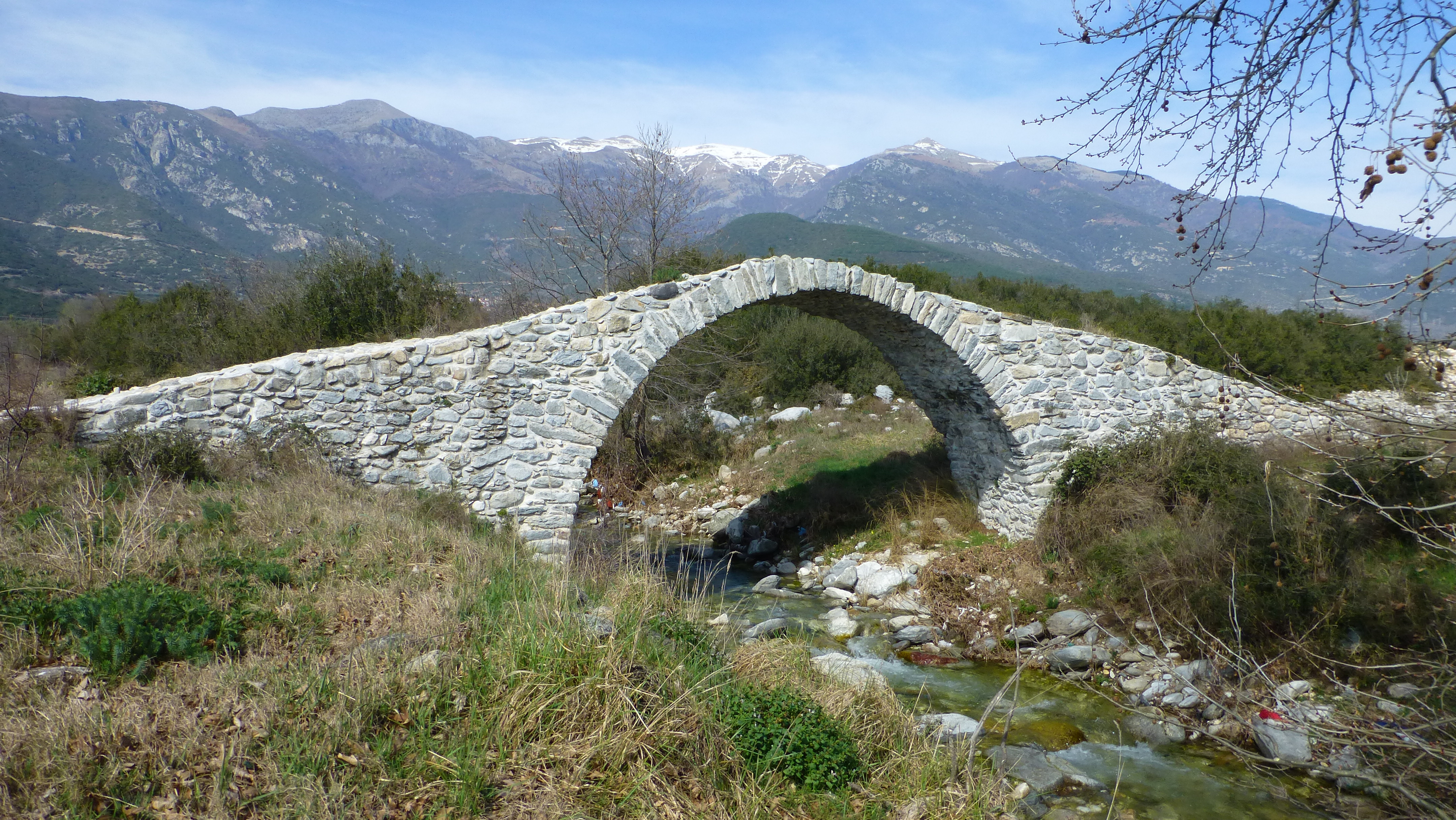 Old Bridge near Mesoropi, Pangaion, Kavala